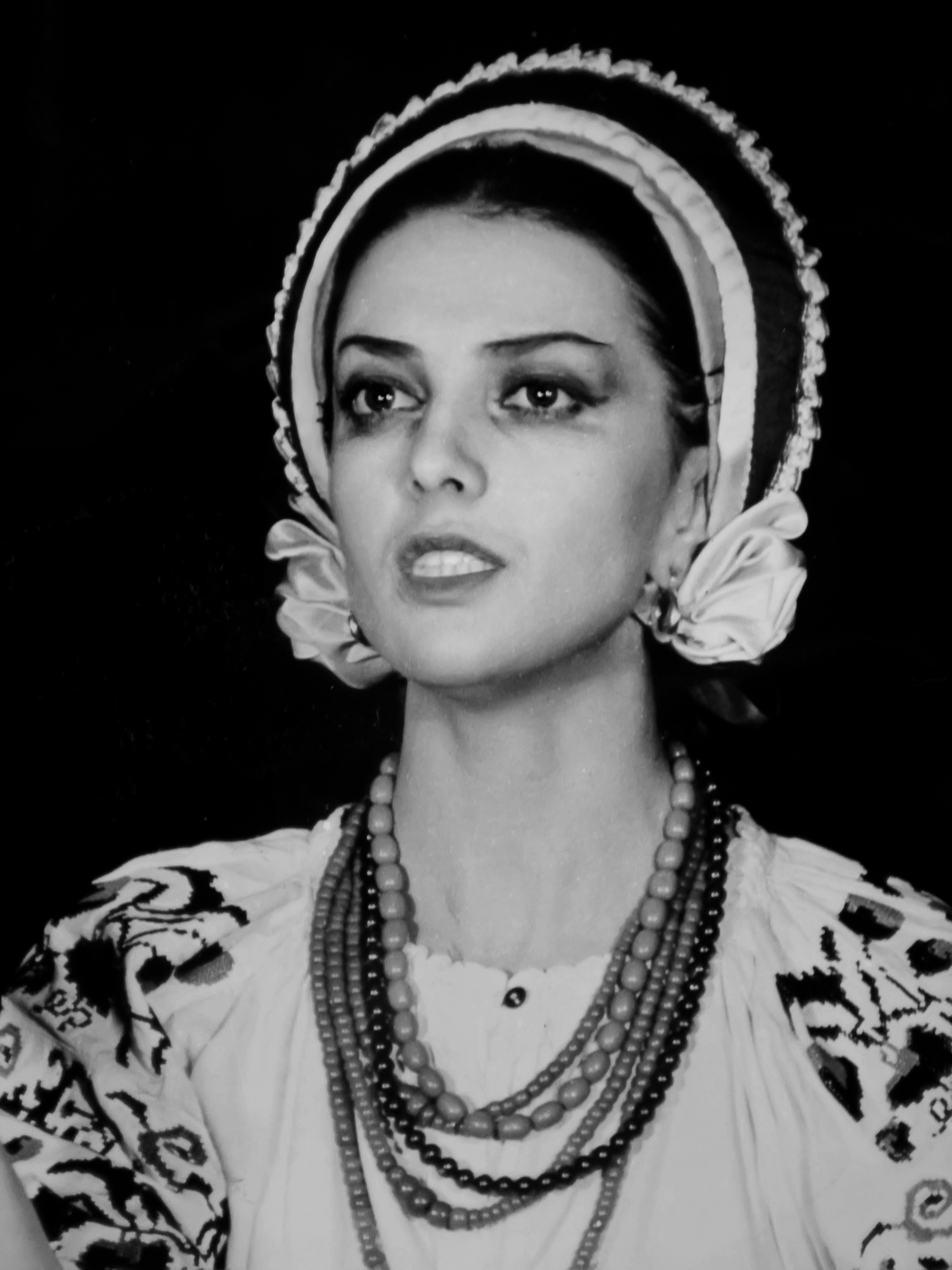 Yaroslava Mosiychuk